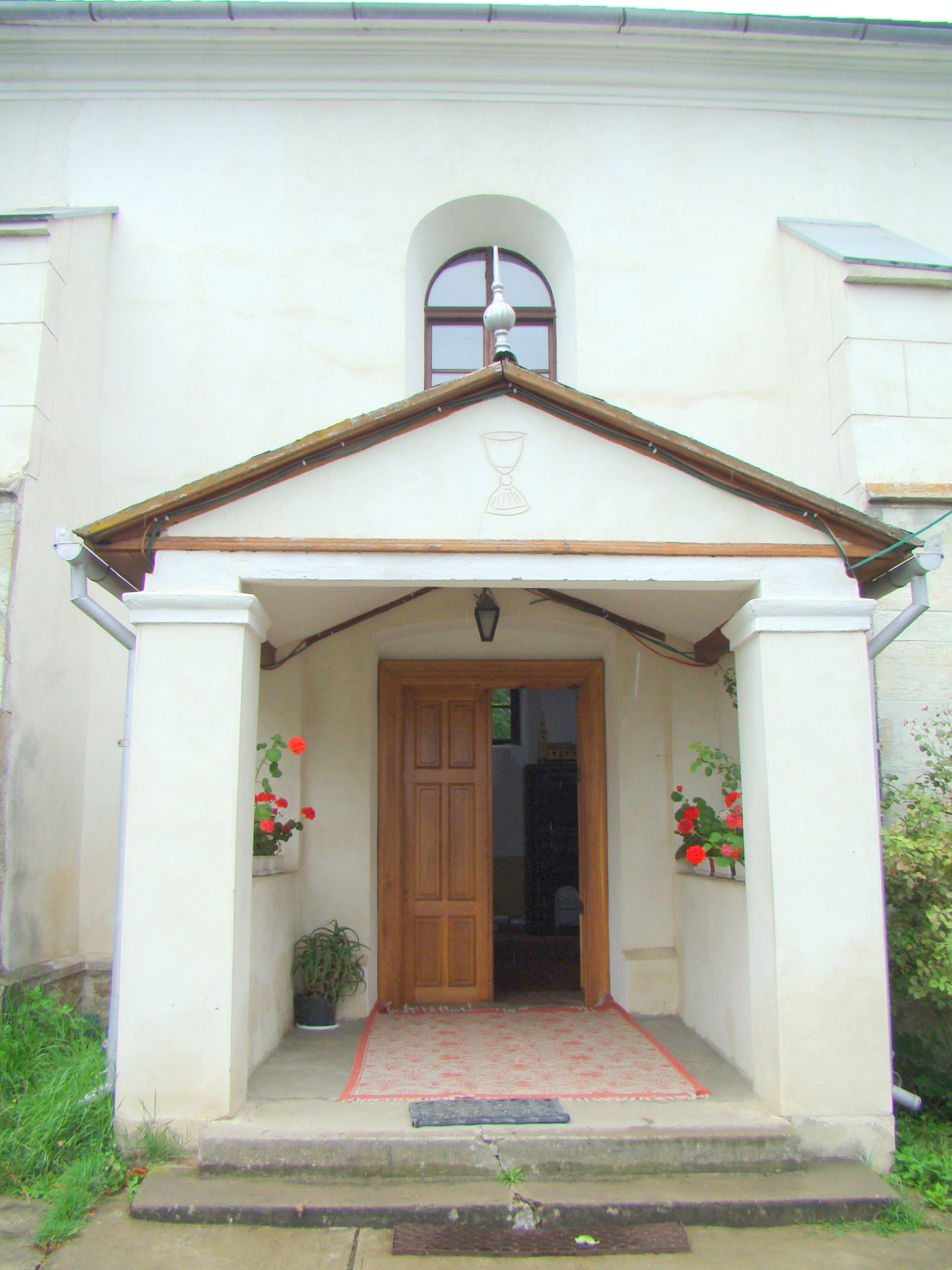 Reformed church in Reteag, Bistrița-Năsăud county, Romania